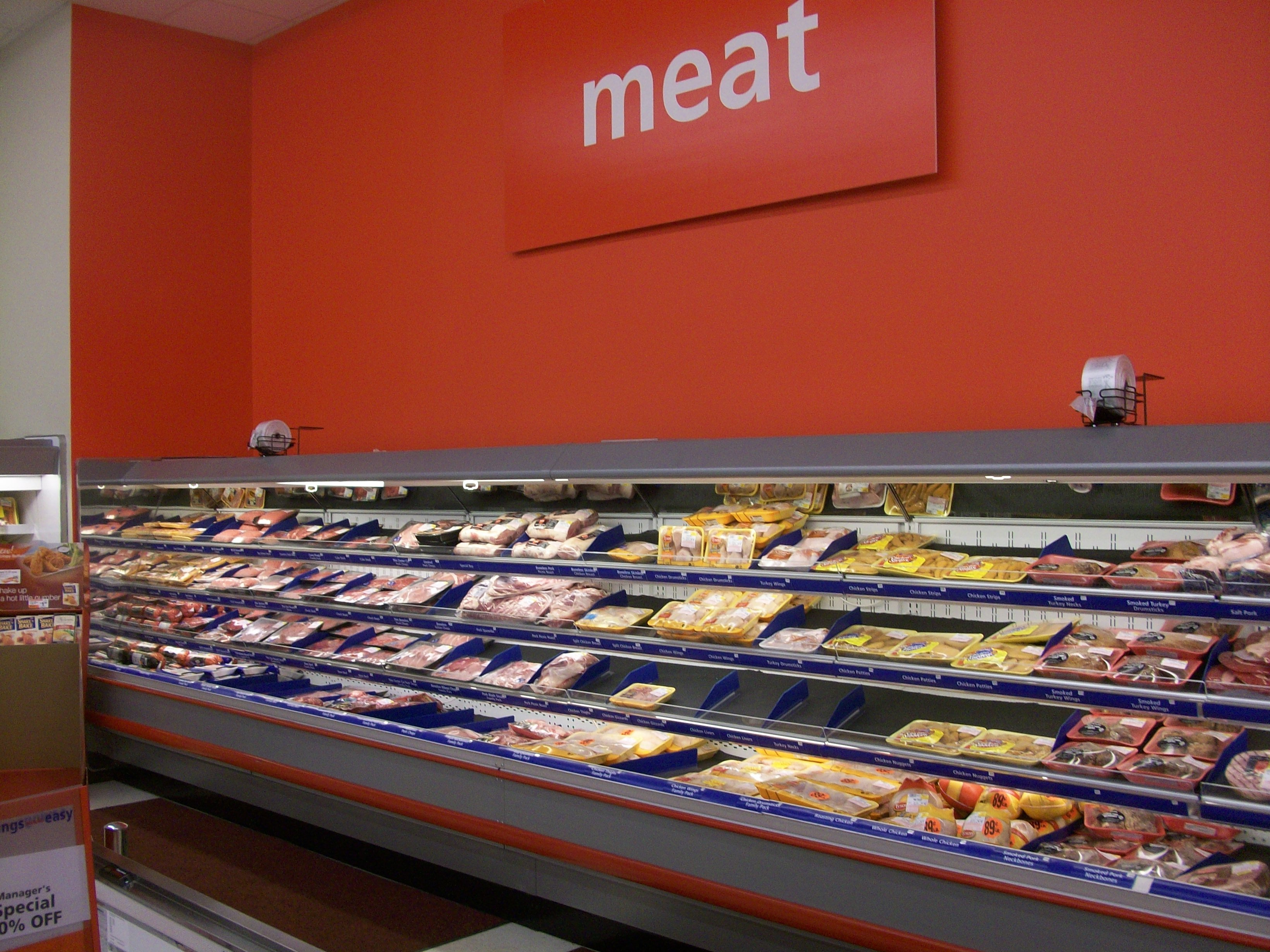 Meat section of Save-A-Lot in Hartford, CT